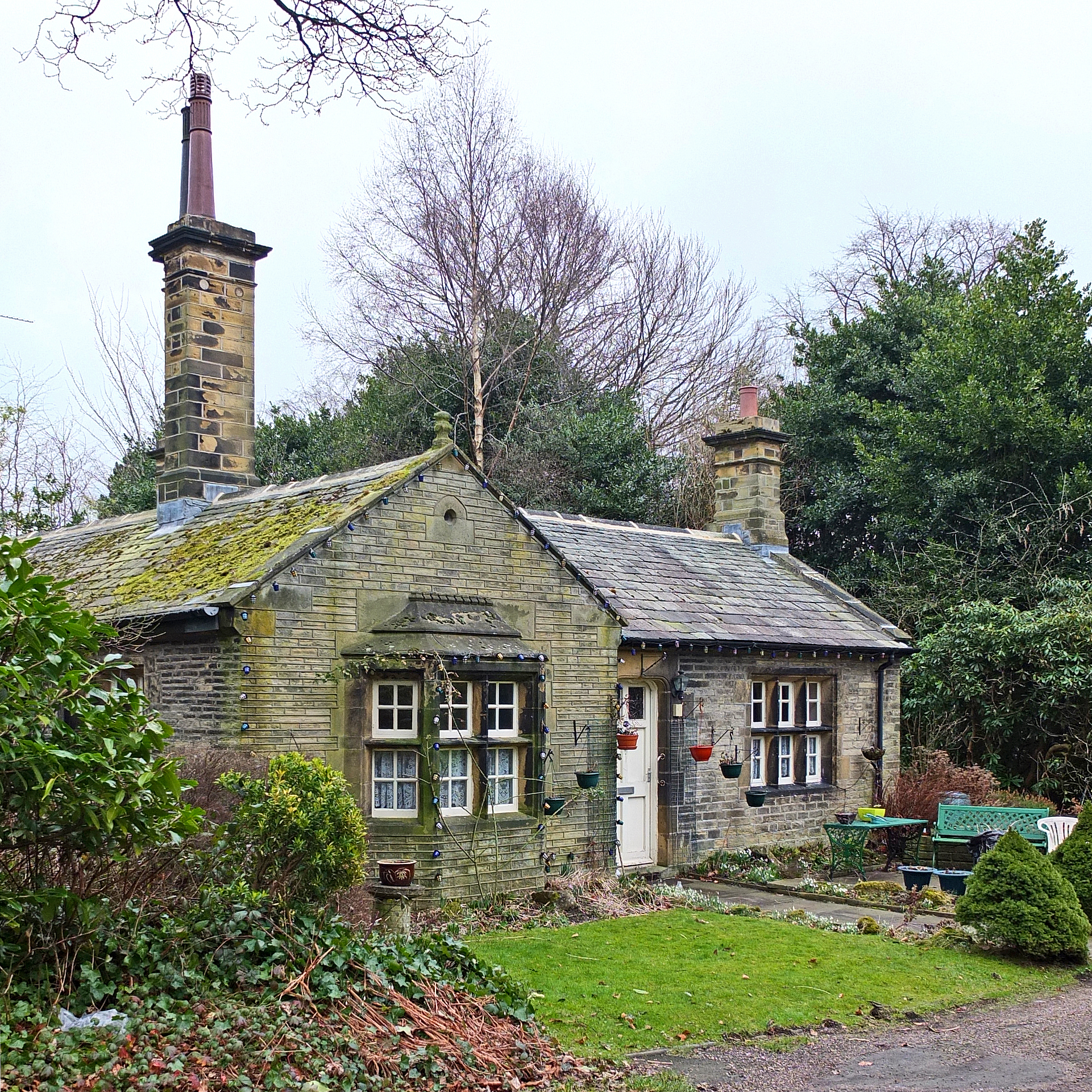 Abbotts Ladies Home Lodge, designed by William Swinden Barber.